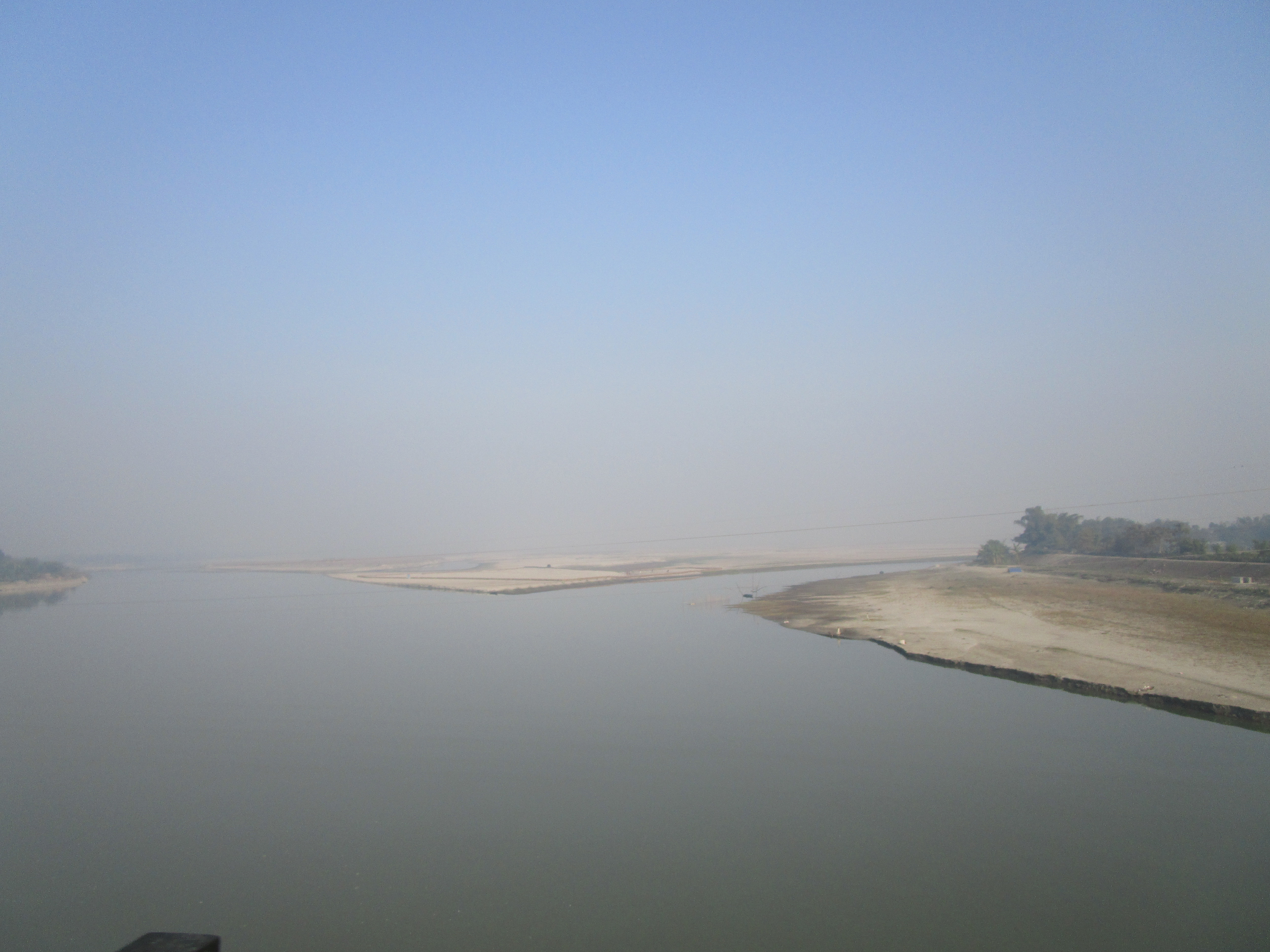 Gangadhar River, Image taken from the bridge at NH31 near Golokganj.